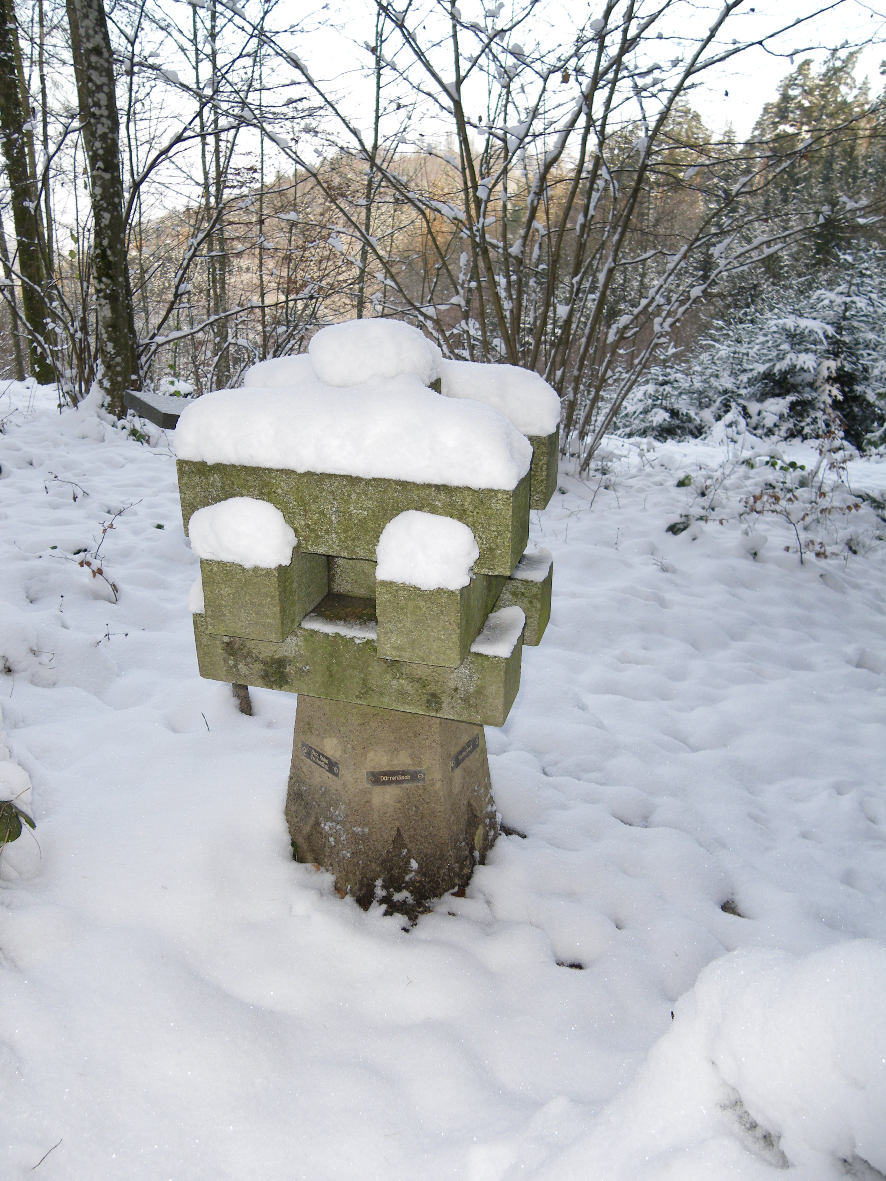 landmark